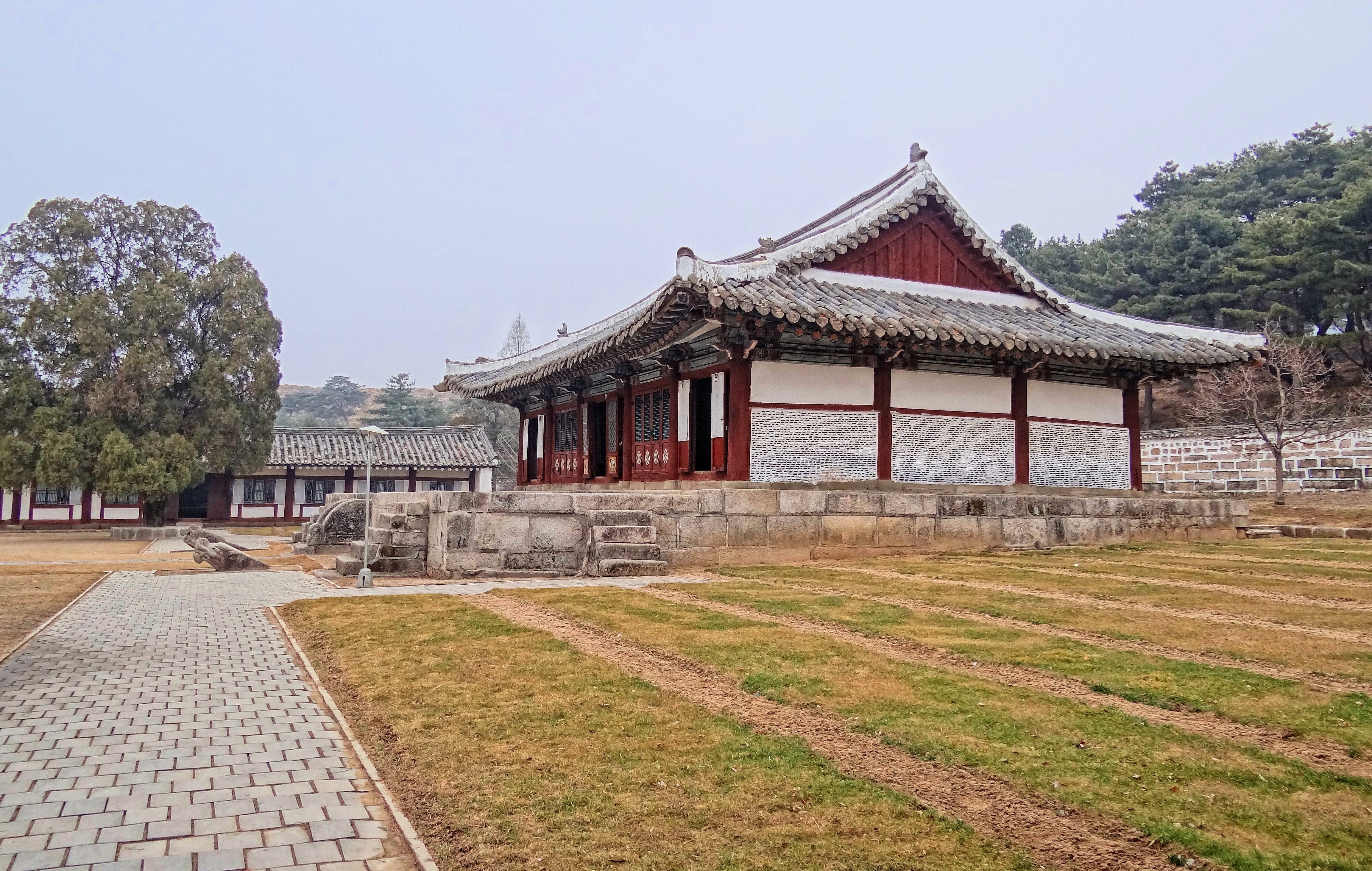 Koryo Museum in Kaesong, North Korea. This building is part of a complex that first was built in 992 as an educational institution.